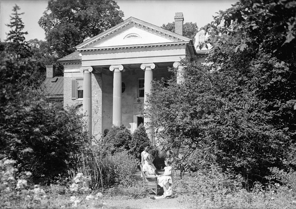 Olney, Harford County, Maryland, USA. Cropped.